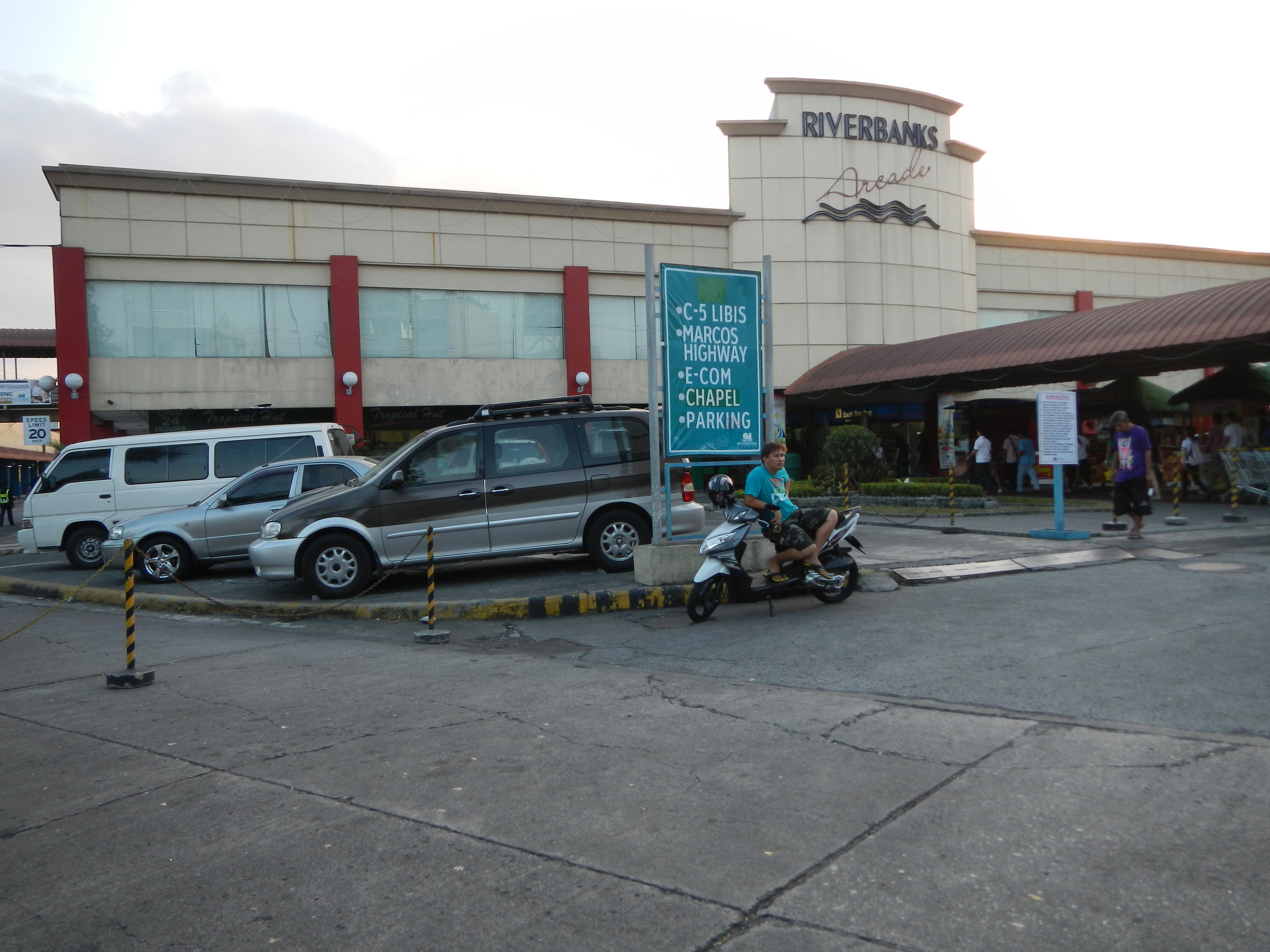 Upload Wizard photos of Marikina City [1] - )Barangay Barangaka, Marikina City, Hall [2] Complex, School and Centre of Commerce and Riverbank Center Mall[3]